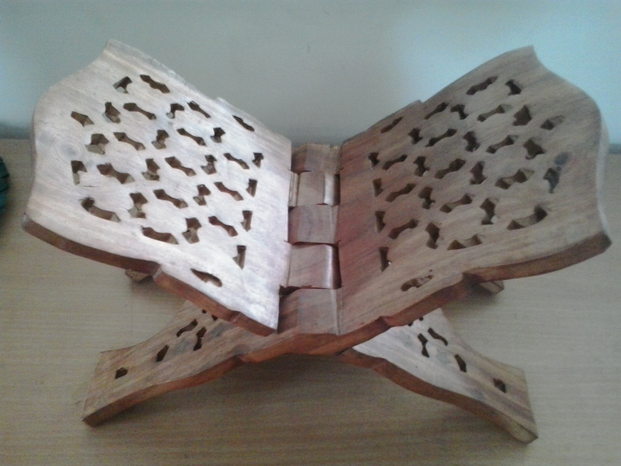 wooden Book reading stand